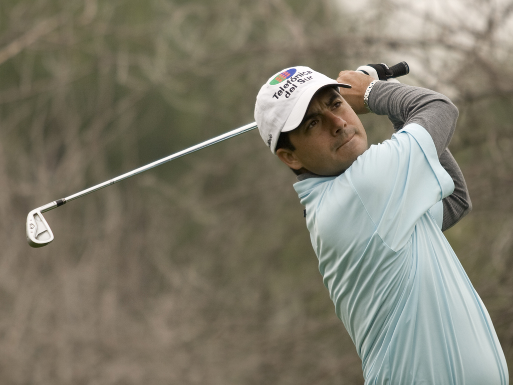 Felipe Aguilar during his participation on the Chile Championship